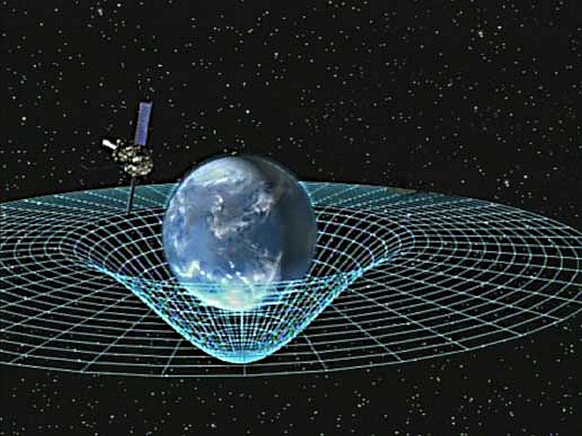 Artist concept of Gravity Probe B orbiting the Earth to measure space-time, a four-dimensional description of the universe including height, width, length, and time.